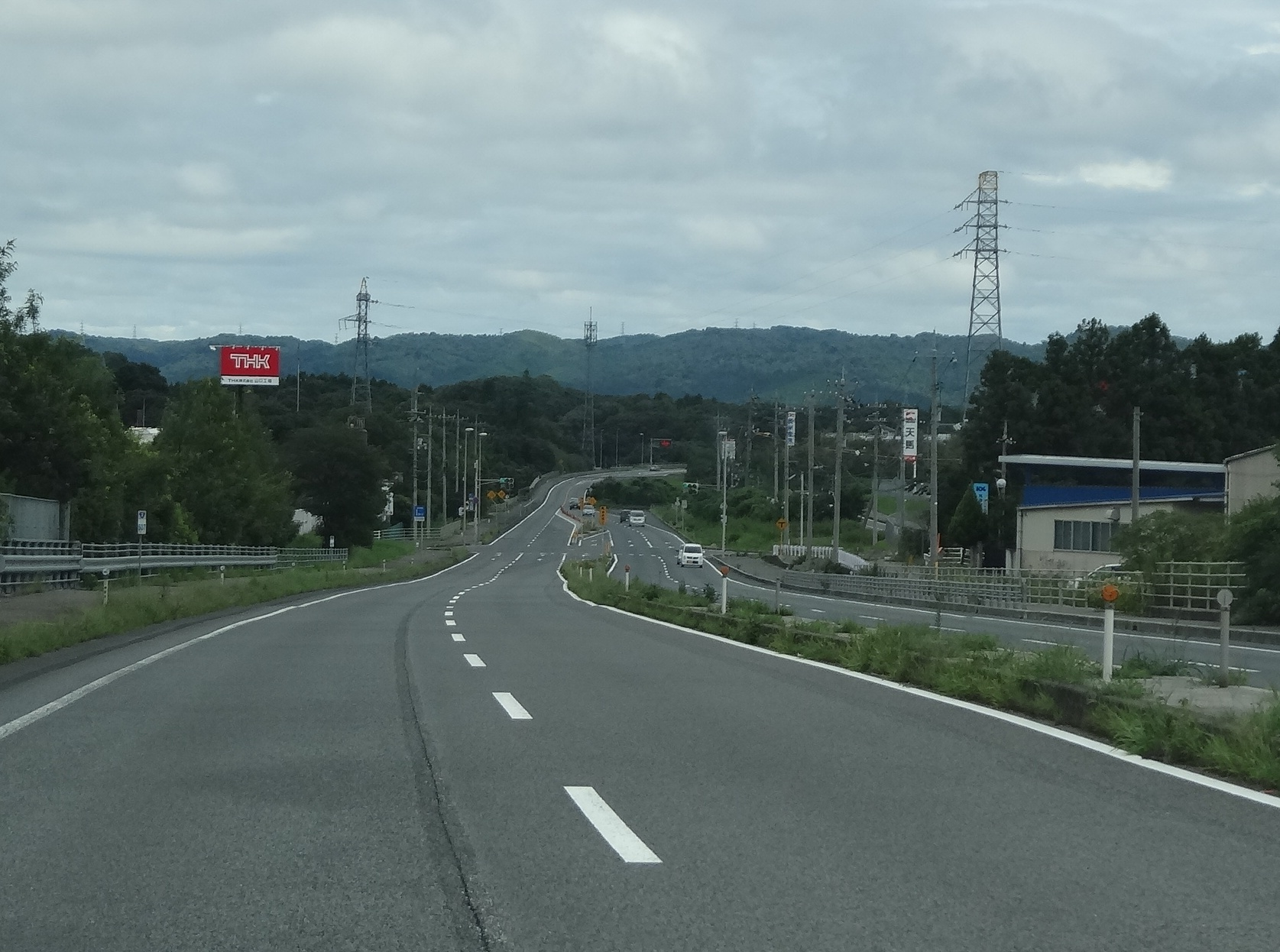 National Route 2 Asa Bypass - Sanyo-Onoda City, Yamaguchi Prefecture, Japan.